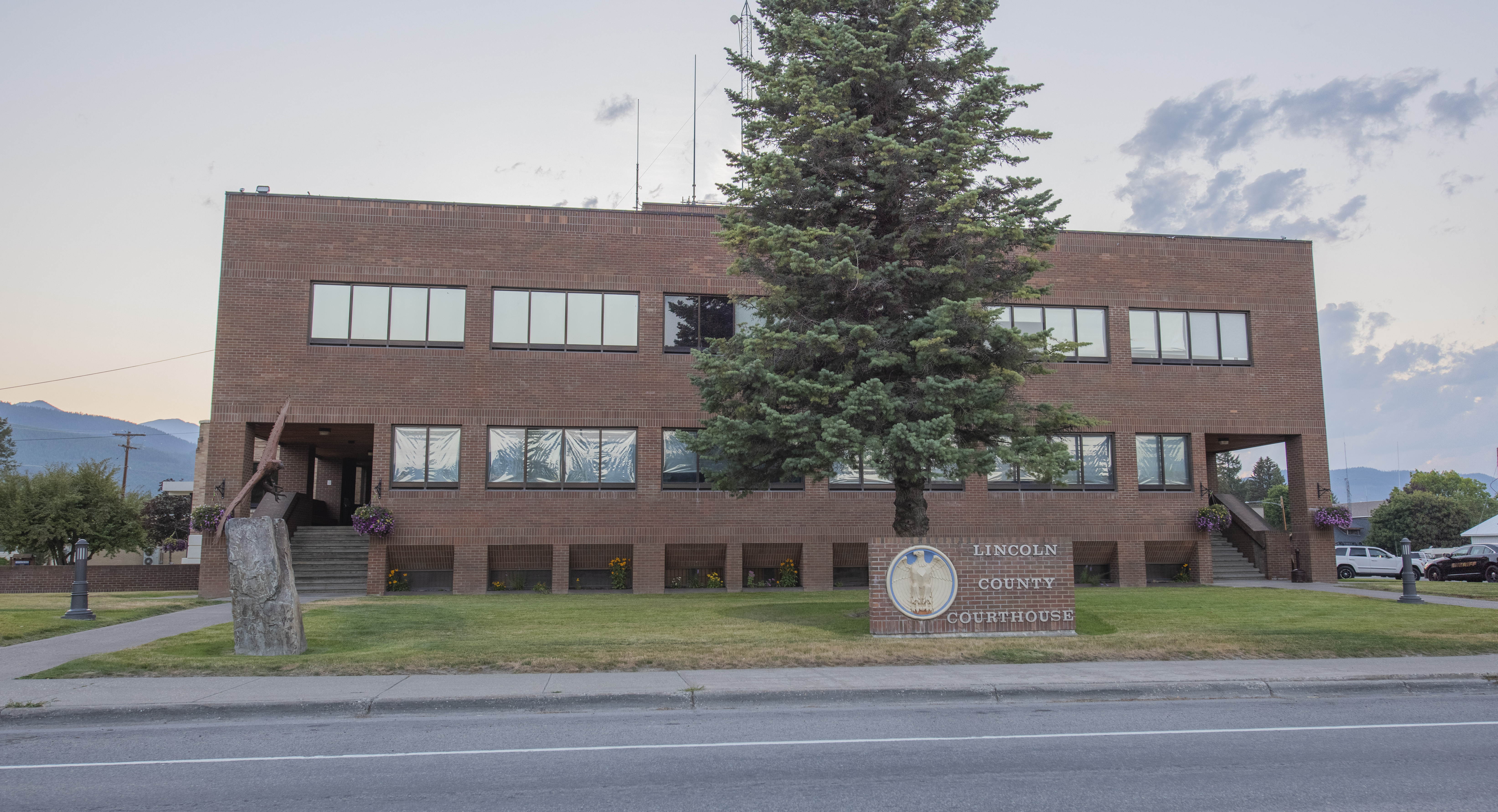 Photograph of the Lincoln County Courthouse in Libby, Montana. Image taken in July 2020.